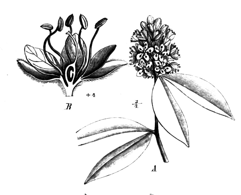 Illustration from book